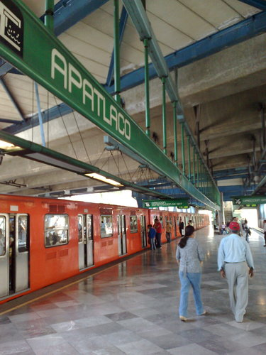 Platform of the station in Apatlaco, line 8 of the Metro of Mexico City.